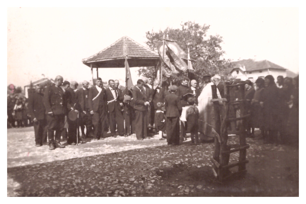 Todor Vlahov, day of the eart, 1941